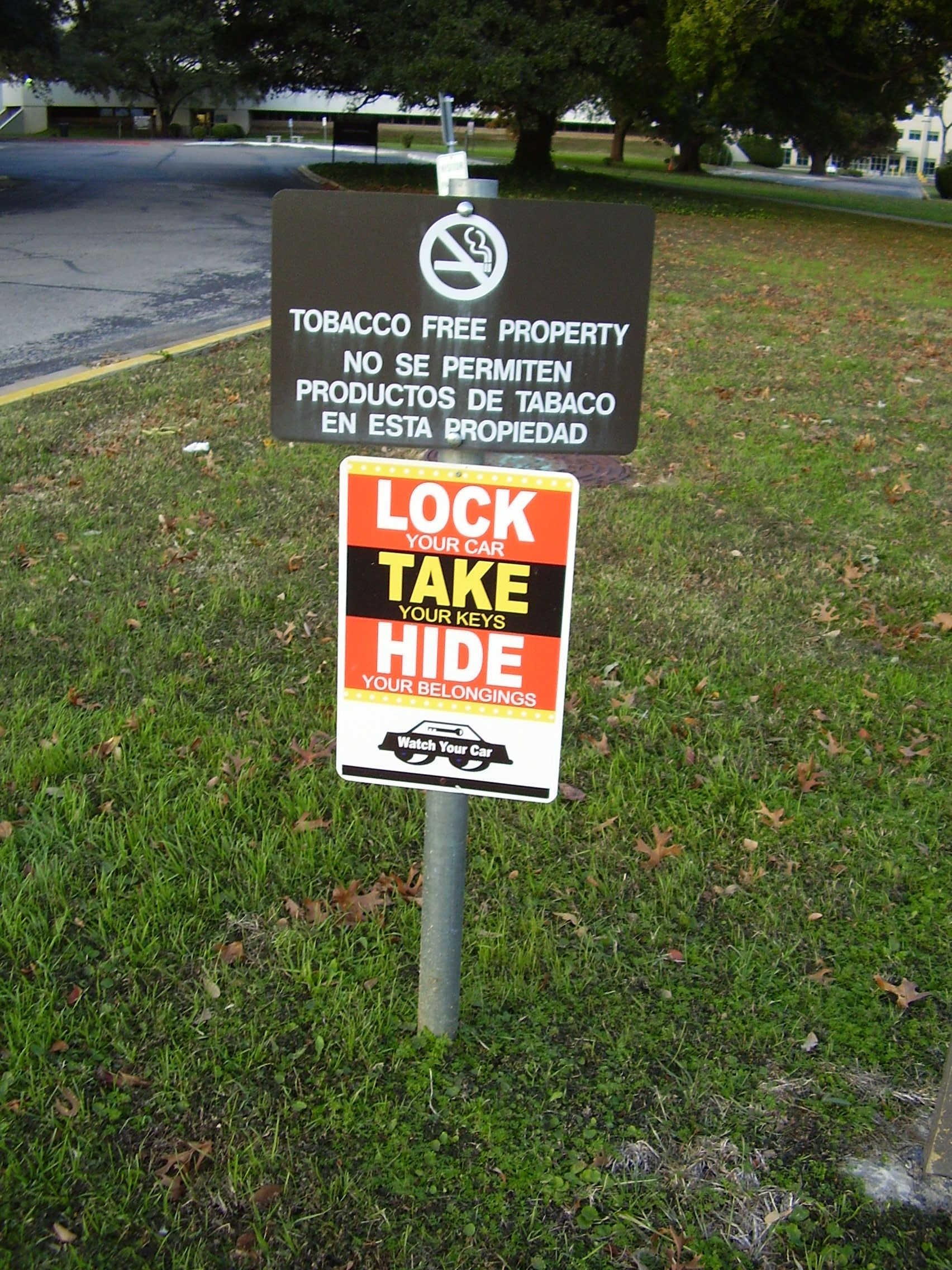 "Tobacco Free Property" - Headquarters of the Texas Department of State Health Services